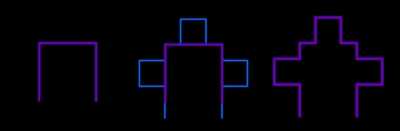 Shows the construction of the Quadric Cross Fractal, made by adding a net total of 3 1/3 new units scaled by the square root of 5 to make the new structure.